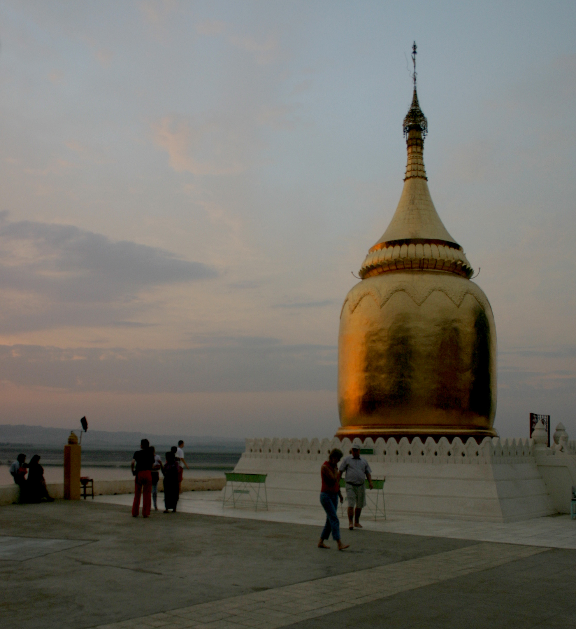 Bupaya pagoda, Bagan, Myanmar.